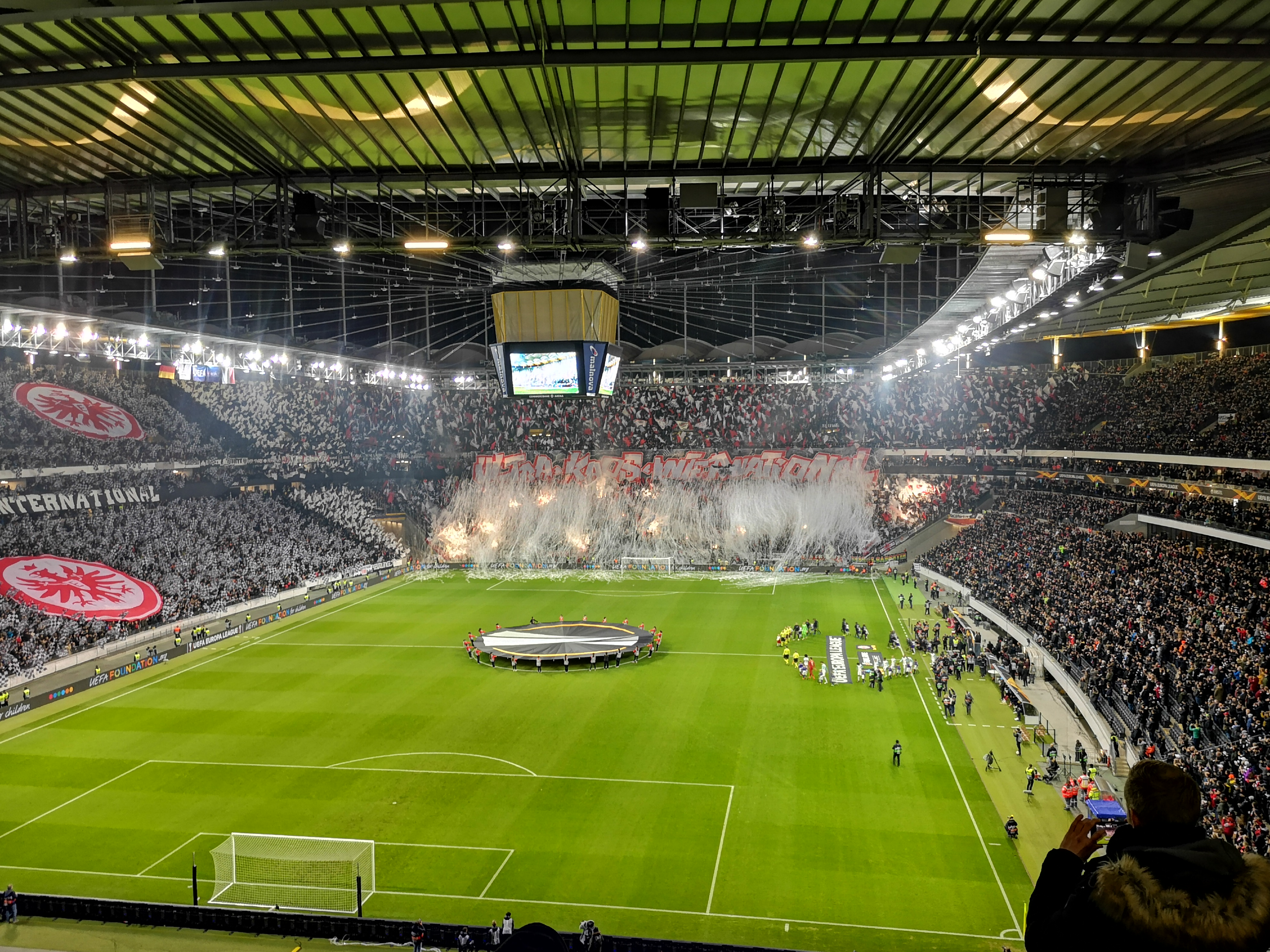 Match Frankfurt - Marseille in November 2018